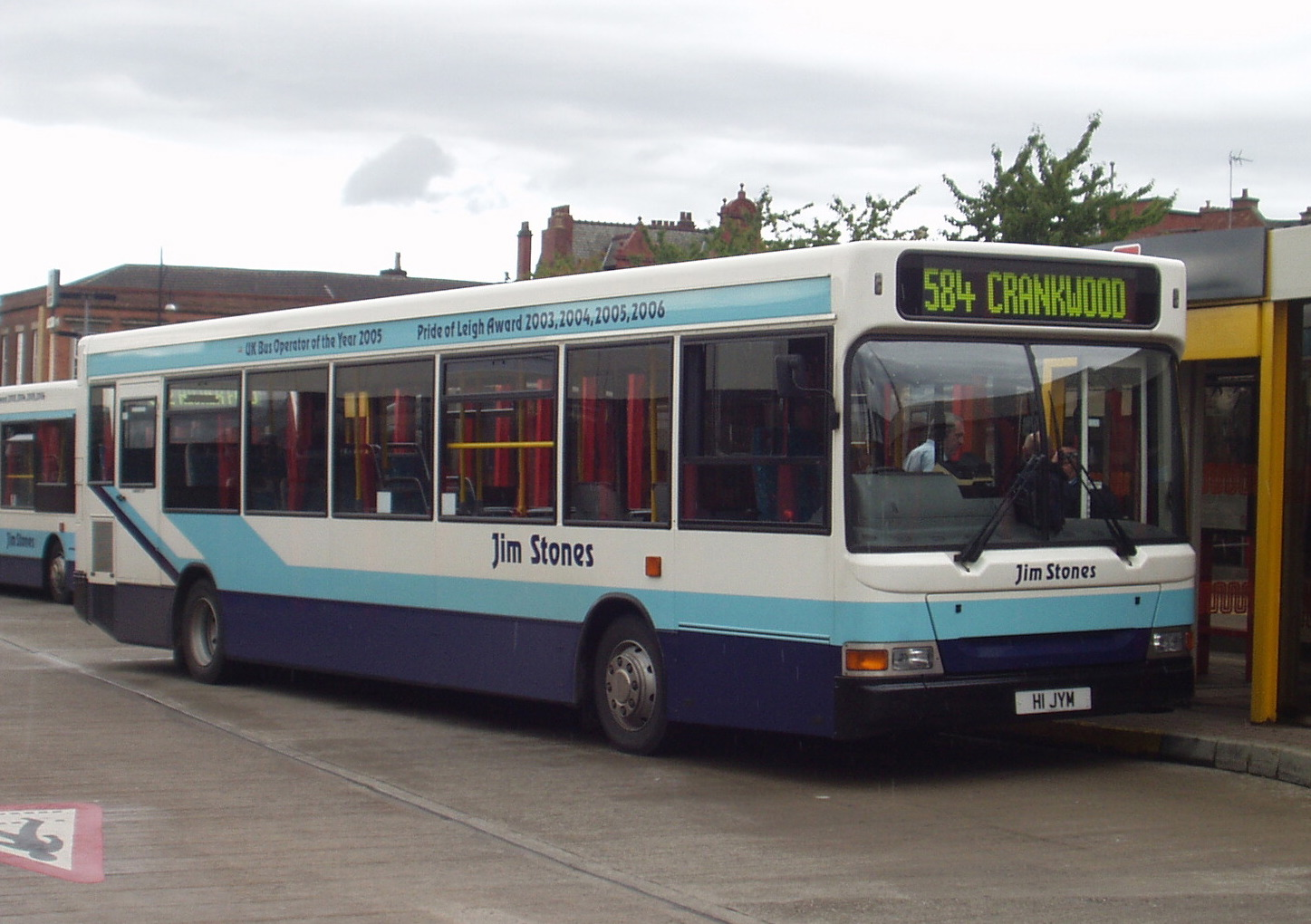 Jim Stones Coaches bus H1 JYM, an Alexander Dennis Dart/Pointer, in Leigh Bus Station